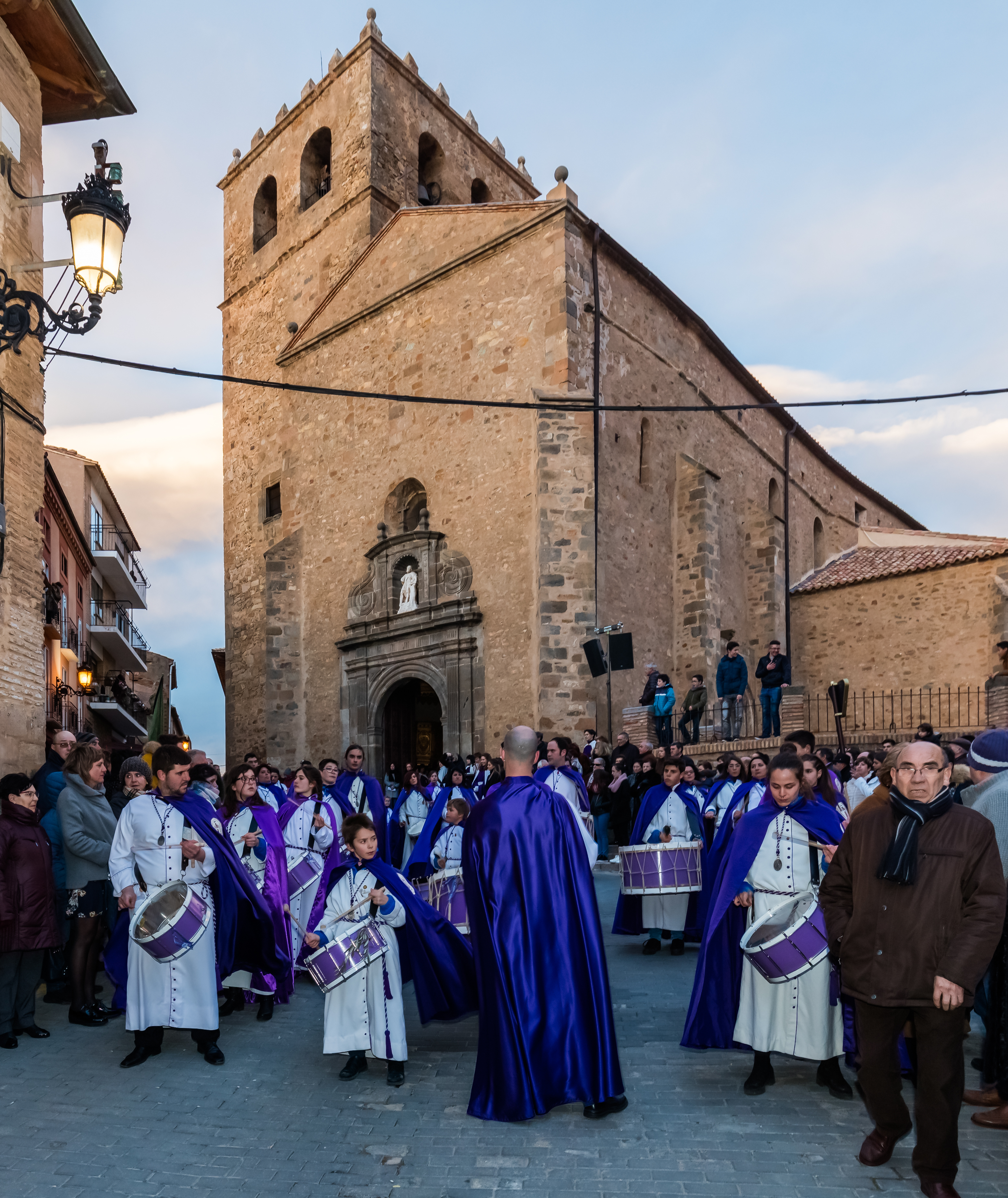 Lamentation of Christ Procession on Good Friday, Holy Week of Ágreda, Soria, Spain.